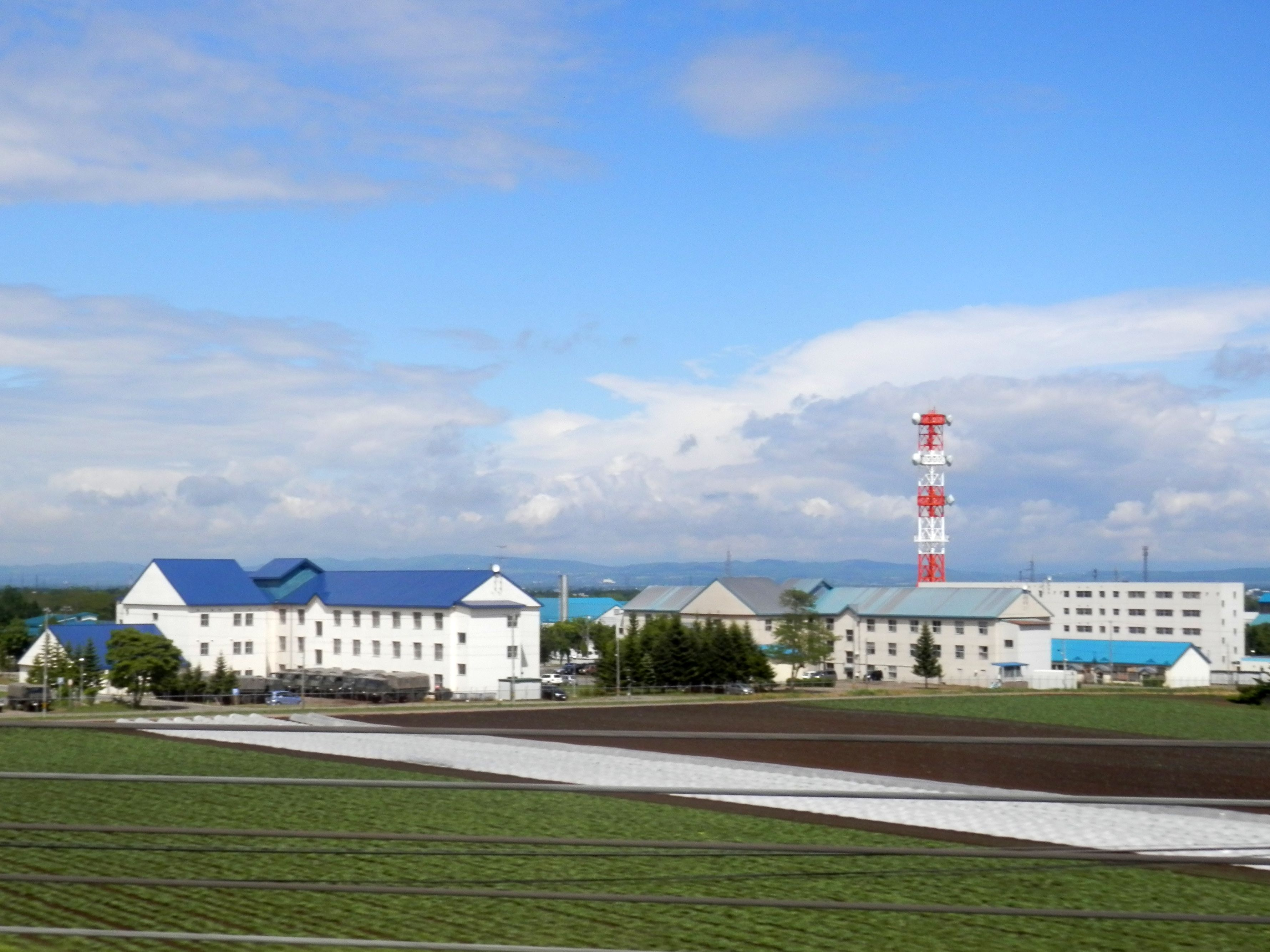 JGSDF Camp Shimamatsu in Eniwa, Hokkaido.